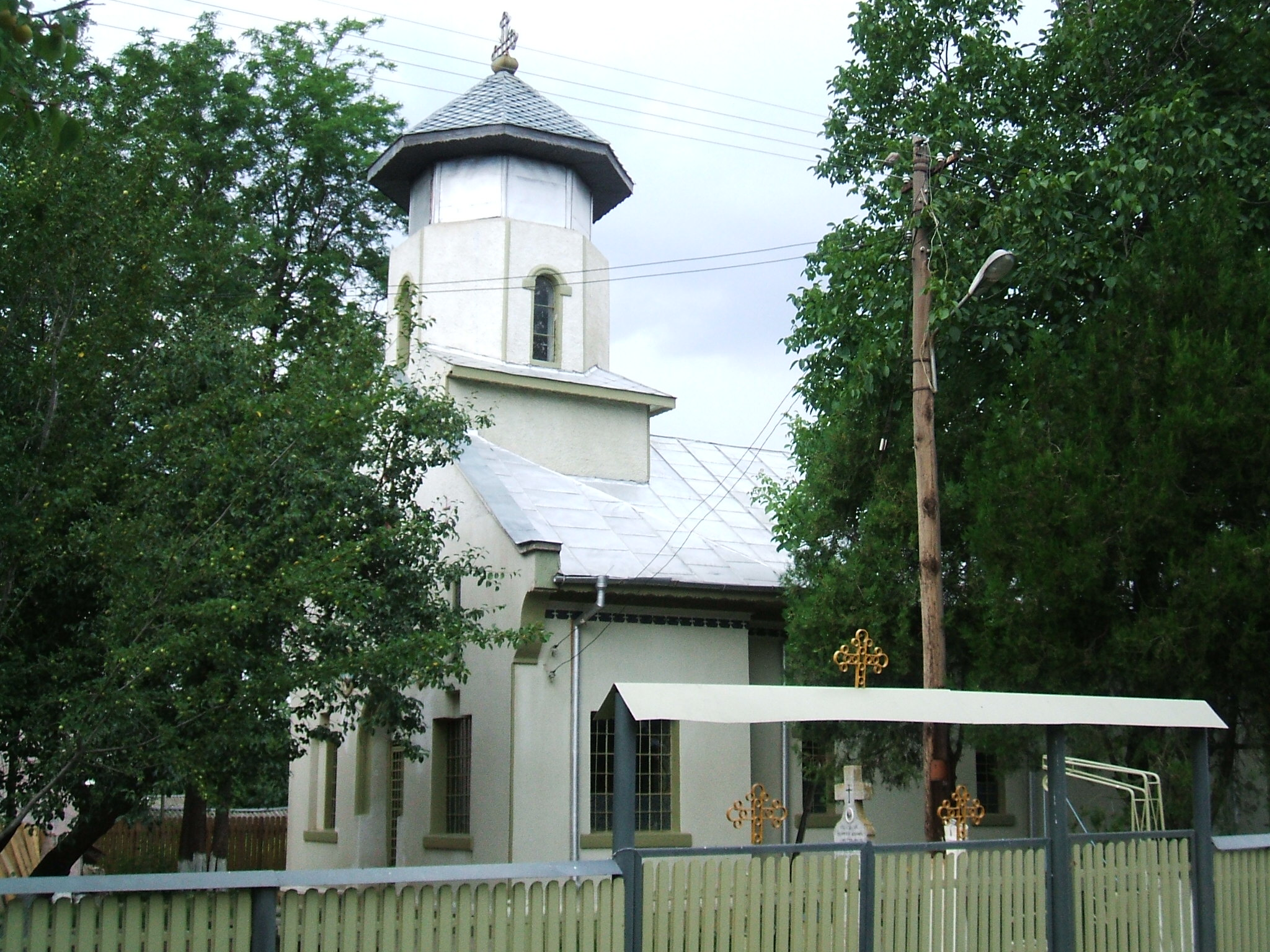 Biserica din Andolina, in anul 2007.